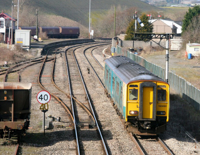 Cardiff bound from Bridgend. The train linking Bridgend/Llantwit Major and Cardiff International Airport to the rest of the world passing through East Aberthaw. This old station is no longer used so the next stop is Barry. To the rear of the photograph can be seen spoil heaps from Aberthaw Power Station.